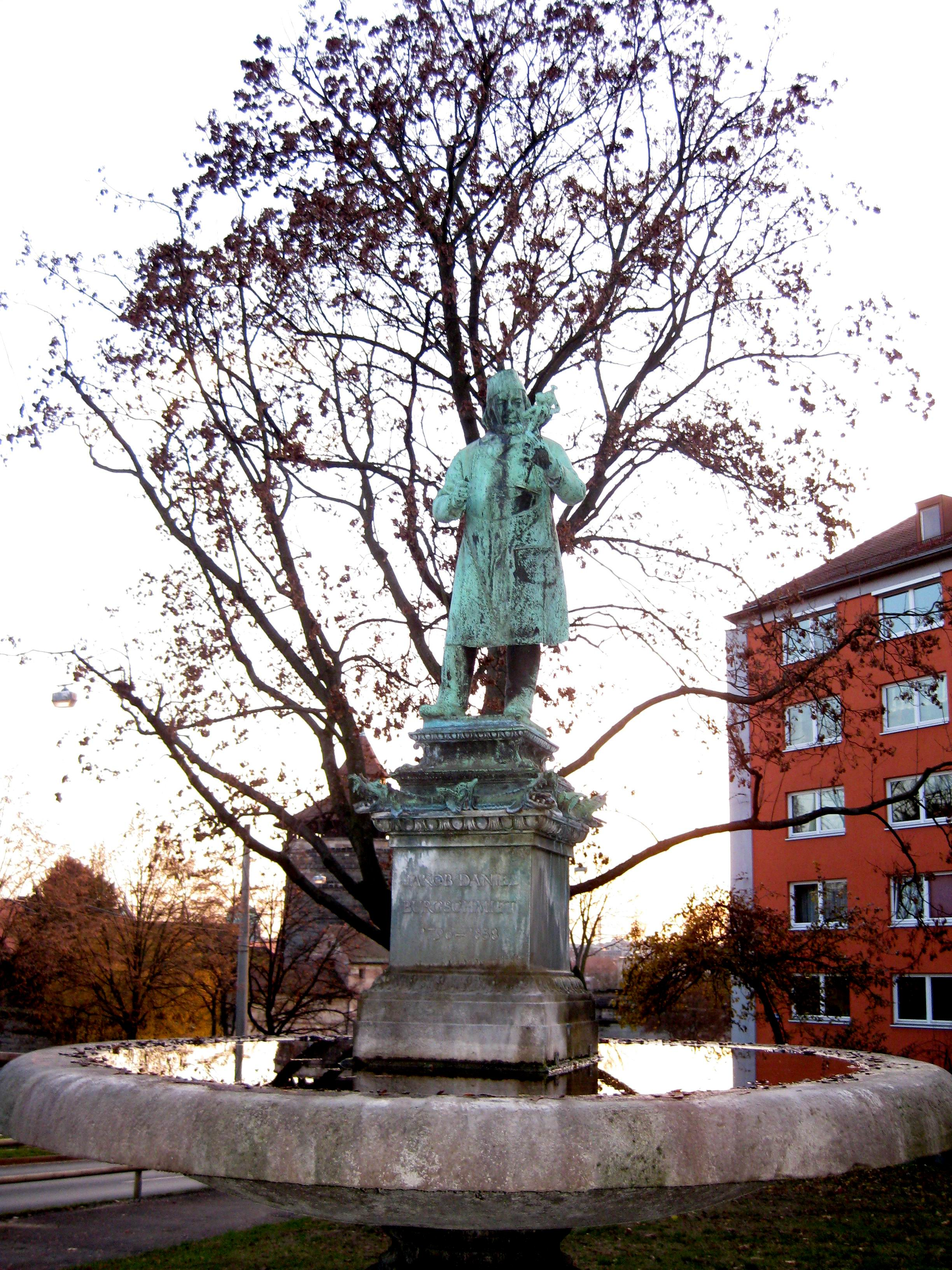 Fountain with monument of Jacob Daniel Burgschmiet in Nuremberg